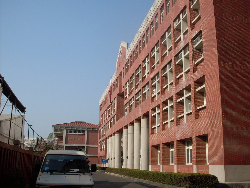 National Sun Yat-sen University